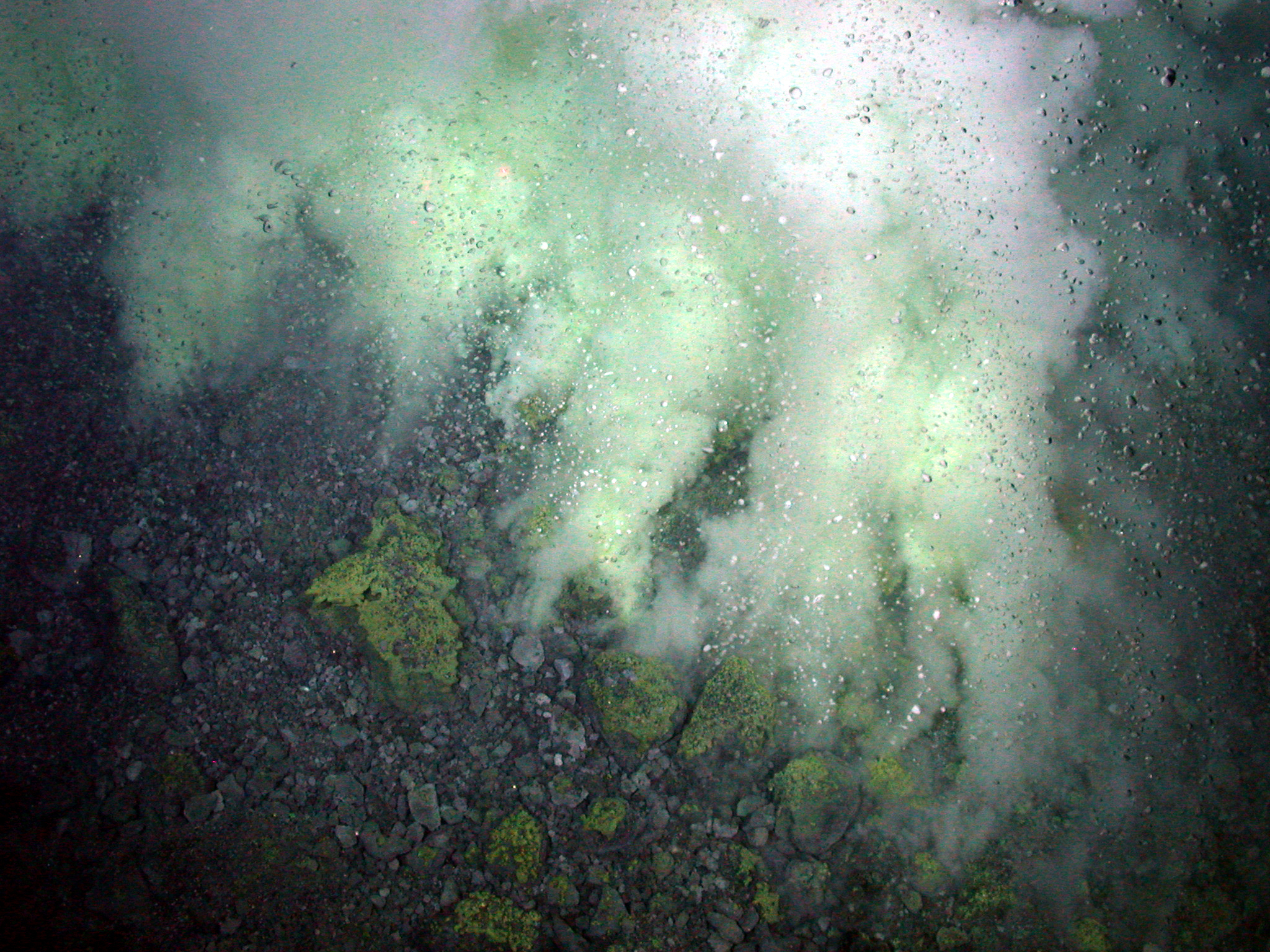 A degassing event at Brimstone started releasing an escalating number of bubbles (probably CO2) as the plume cloud increased in volume. Notice the pieces of sulfur at the base of the cloud.